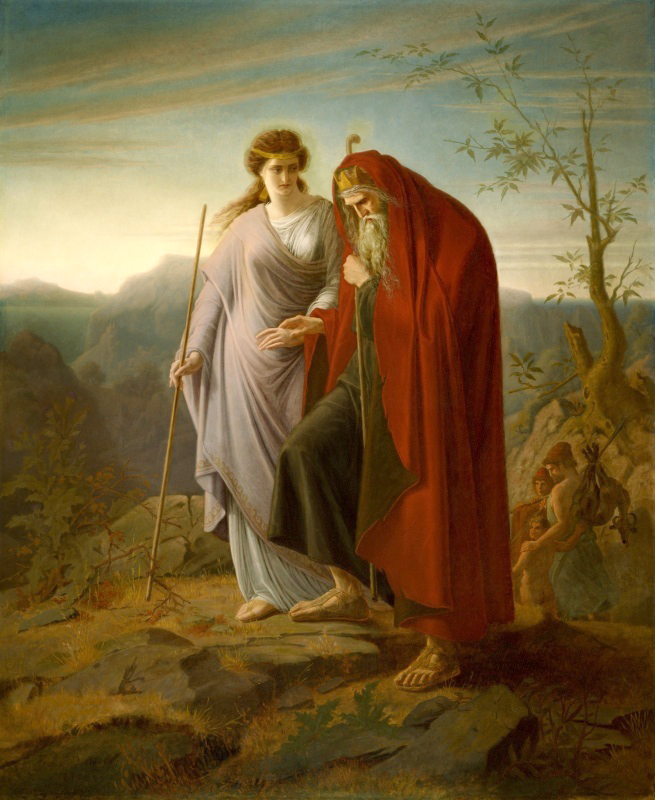 Oedipus and Antigone by Franz Dietrich, oil on canvas, 92 in. x 76 in. (233.68 cm x 193.04 cm), Crocker Art Museum